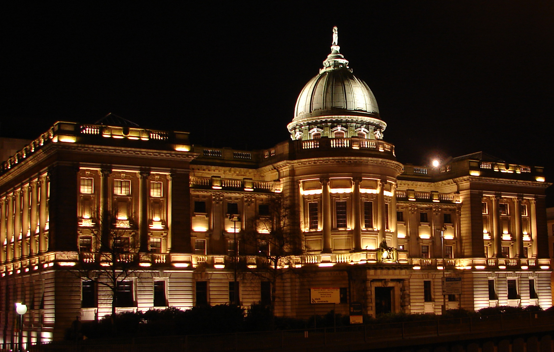 Mitchell Library at night, Feb 2007. Taken by my good self.